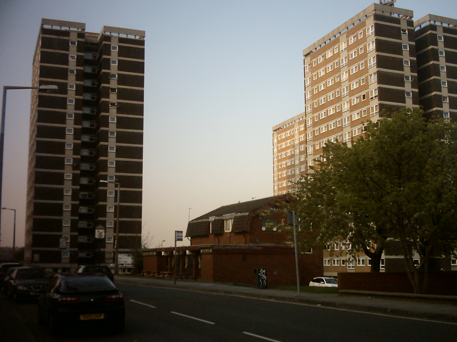 Lovell Park Flats in the Lovell Park area of Little London, Leeds, West Yorkshire, UK. Taken on the 20th April 2009, at the time of photograph being taken the flats were undergoing renovation of kitchens and bathrooms.